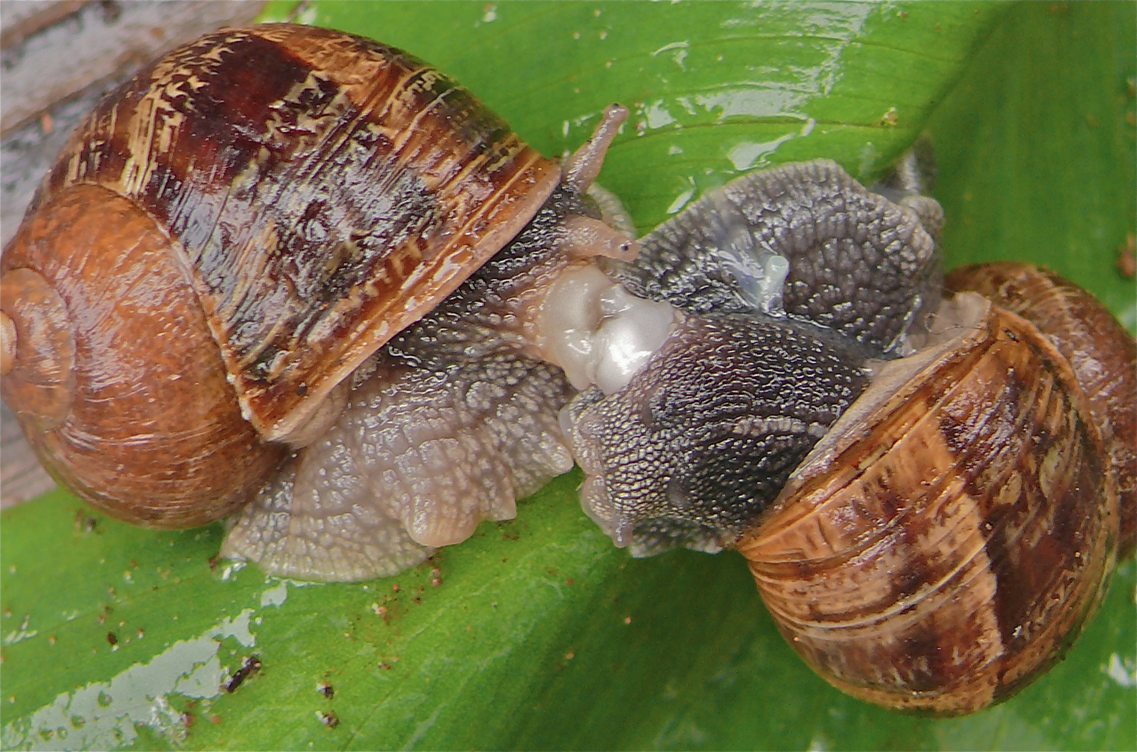 Cornu aspersum, mating. San Luis Obispo County, California.